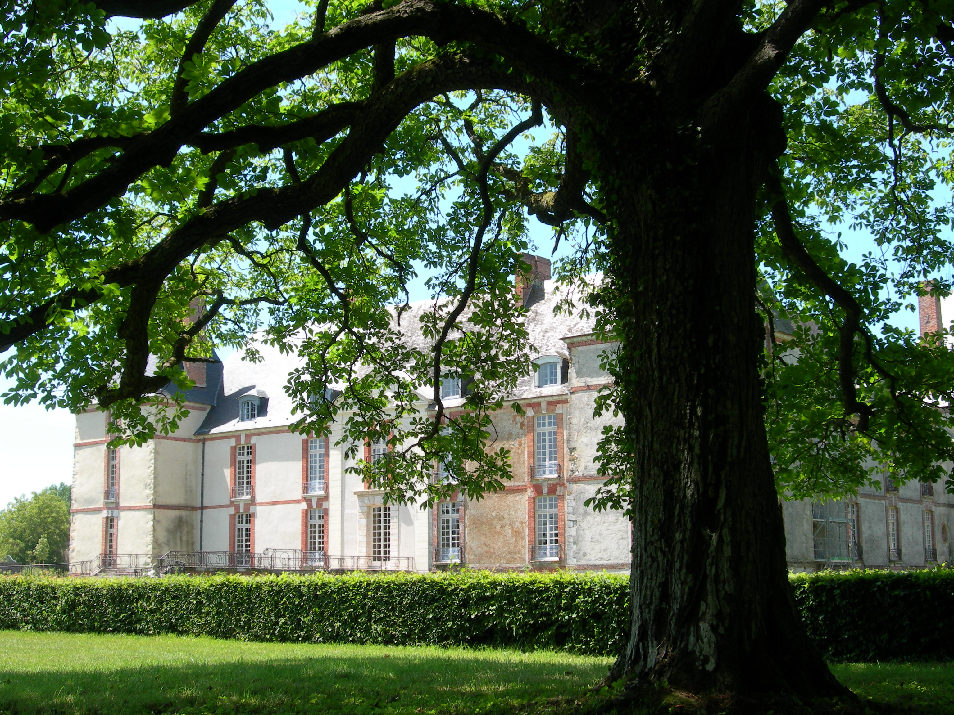 Castle of Reveillon, view of from the alley of chestnut tree. this view used to be a delight for Marcel Proust